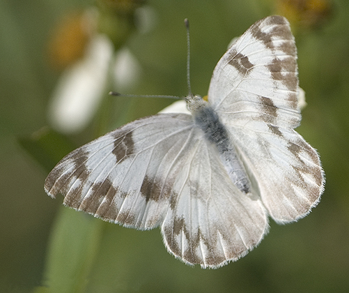 (Female) Checkered White (Pontia protodice -- Family: Pieridae). Along CR827, south of South Bay, Palm Beach Co., Florida 07/28/2007